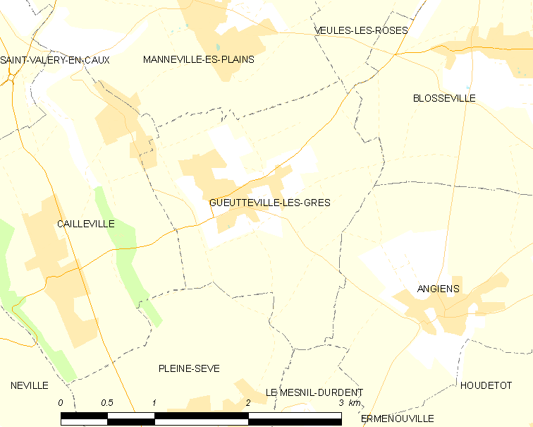 Map of French municipality Gueutteville-les-Grès